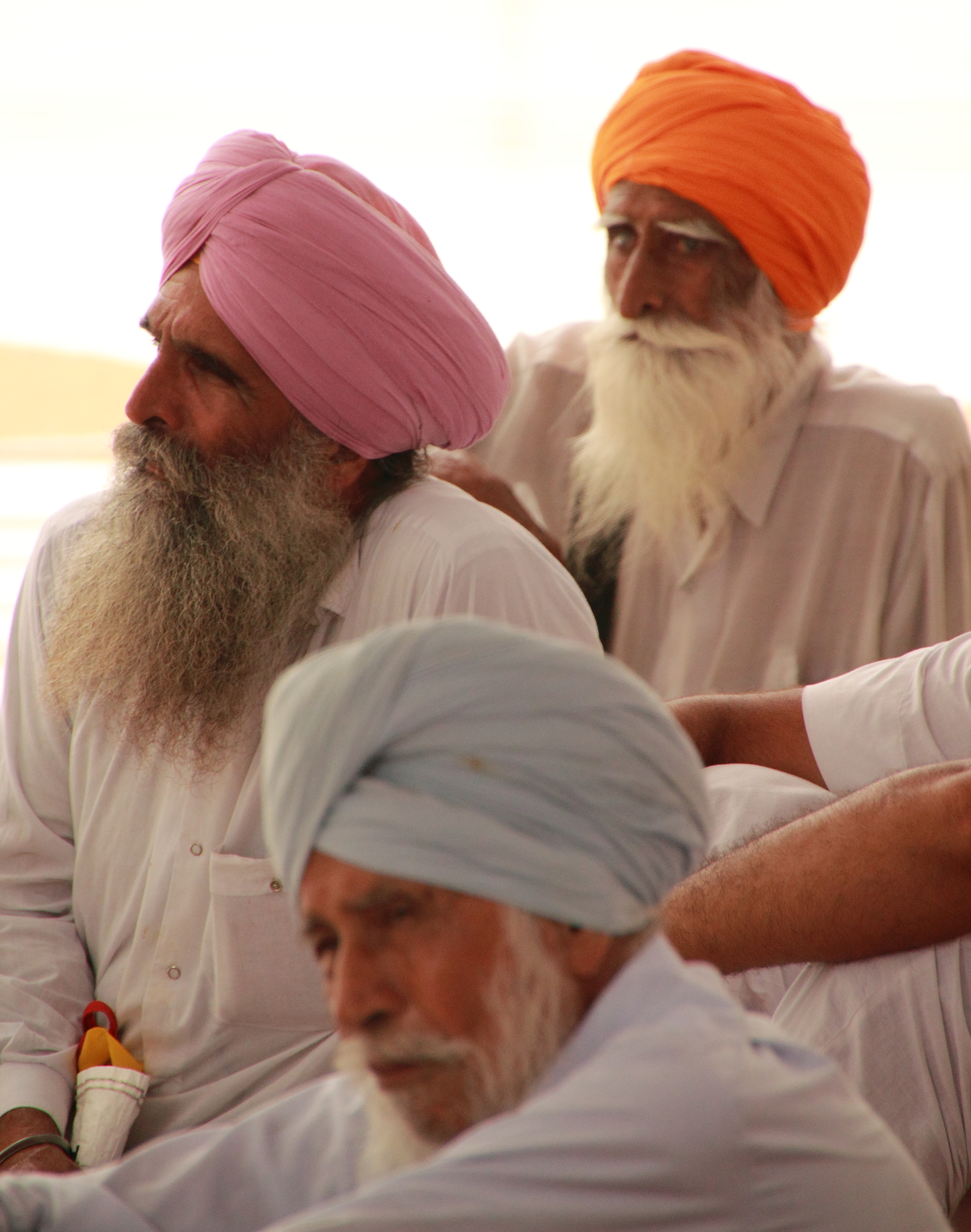 Pilgrims inside the Golden Temple